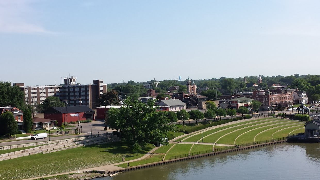 Downtown Jeffersonville Indiana viewed from the Big 4 Bridge